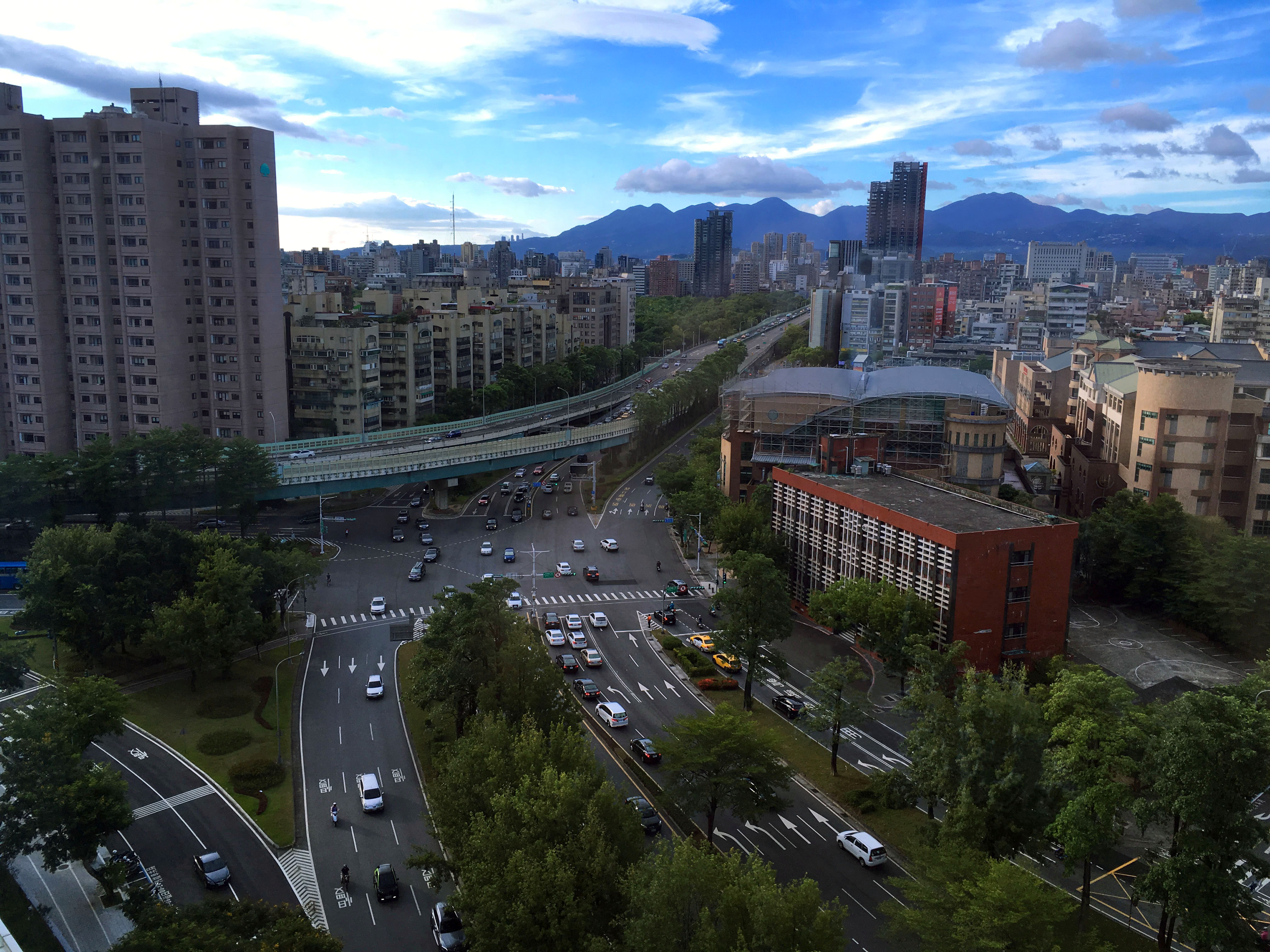 Intersection of Section 2, Jianguo South Road (Jianguo Expressway) and Section 2, Xinhai Road, Taipei, Taiwan.